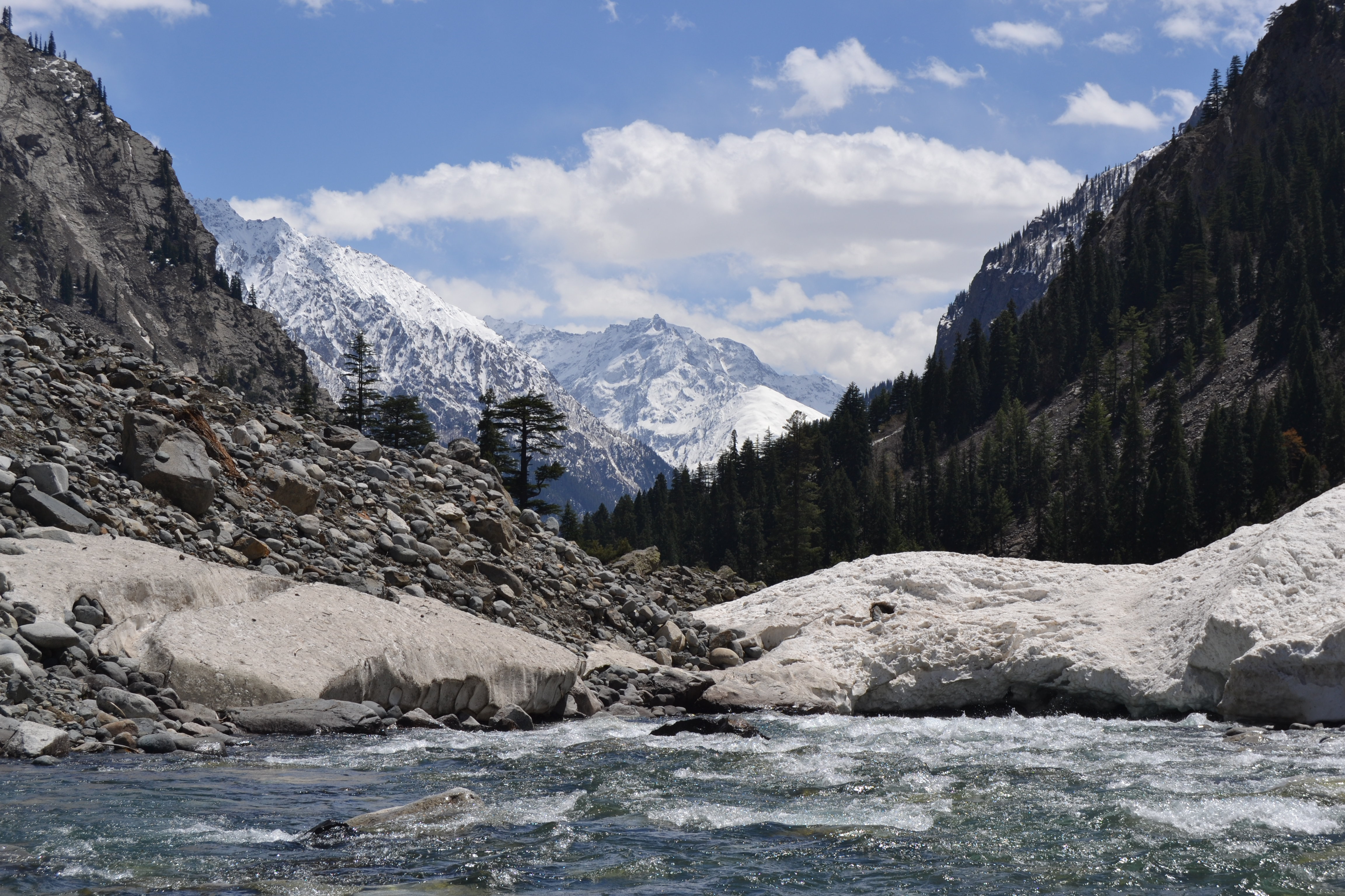 Oshu River Making its way from beneath the glaciers.